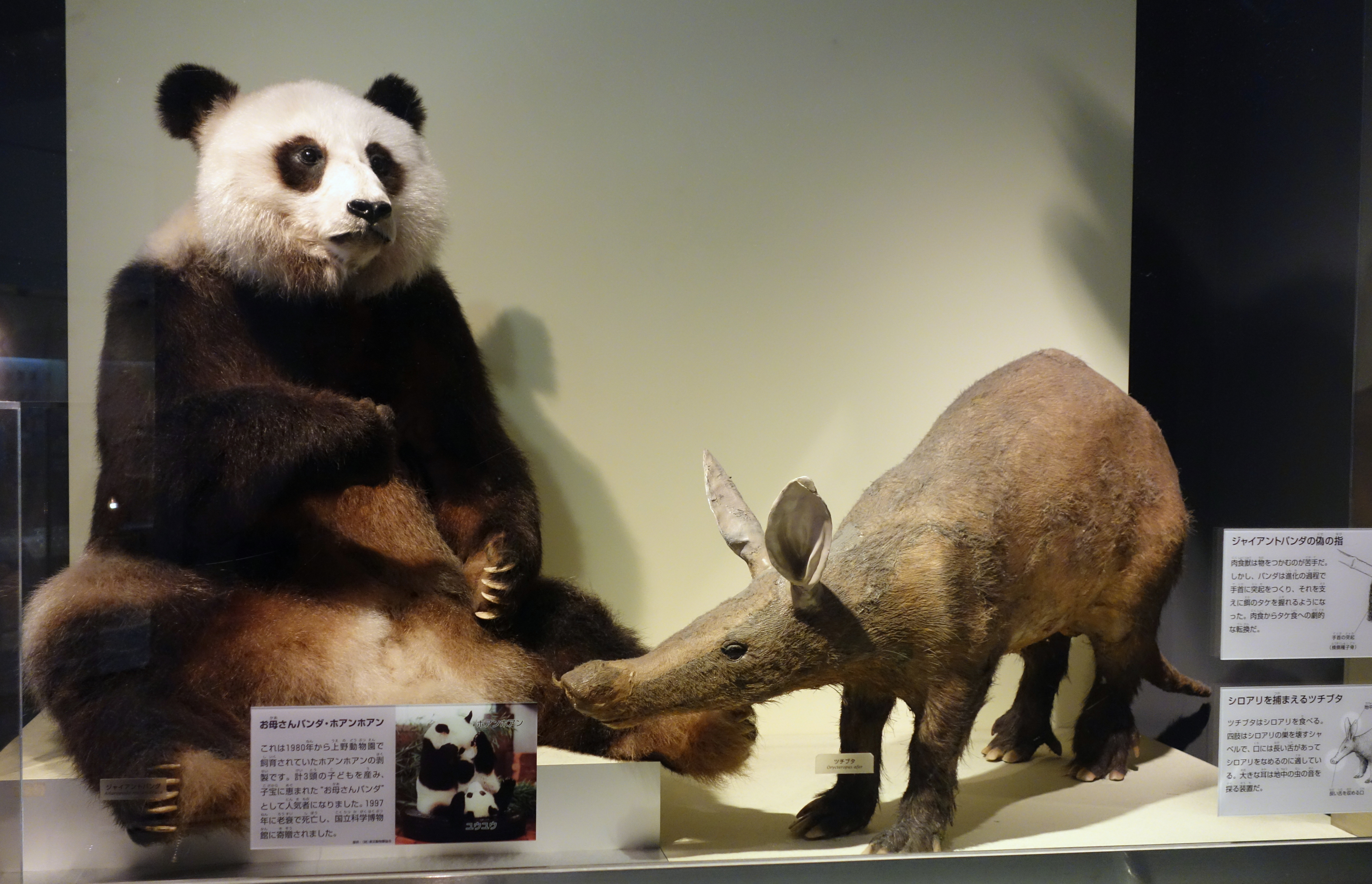 Exhibit in the National Museum of Nature and Science, Tokyo, Japan.